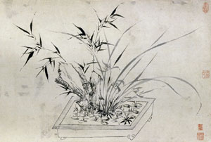 Lan Zhu Song Mei Tu (Orchid, Bamboo, Pine and Plum) by Xue Susu c. 1564-c. 1650, Ink on paper 29x417.5 cm